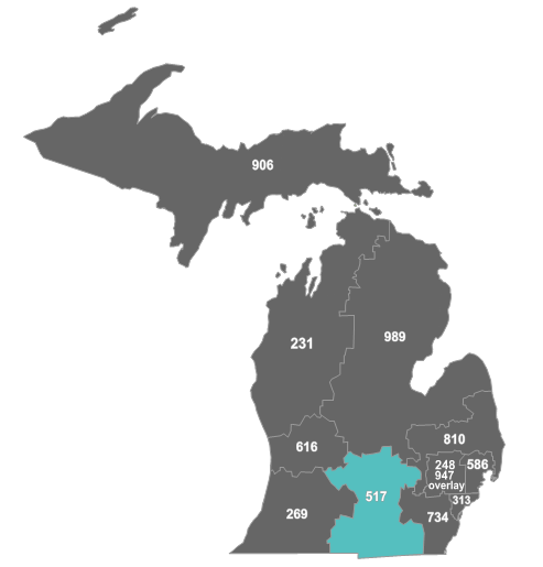 Area code map of Michigan highlighting the region covered by area code 517.